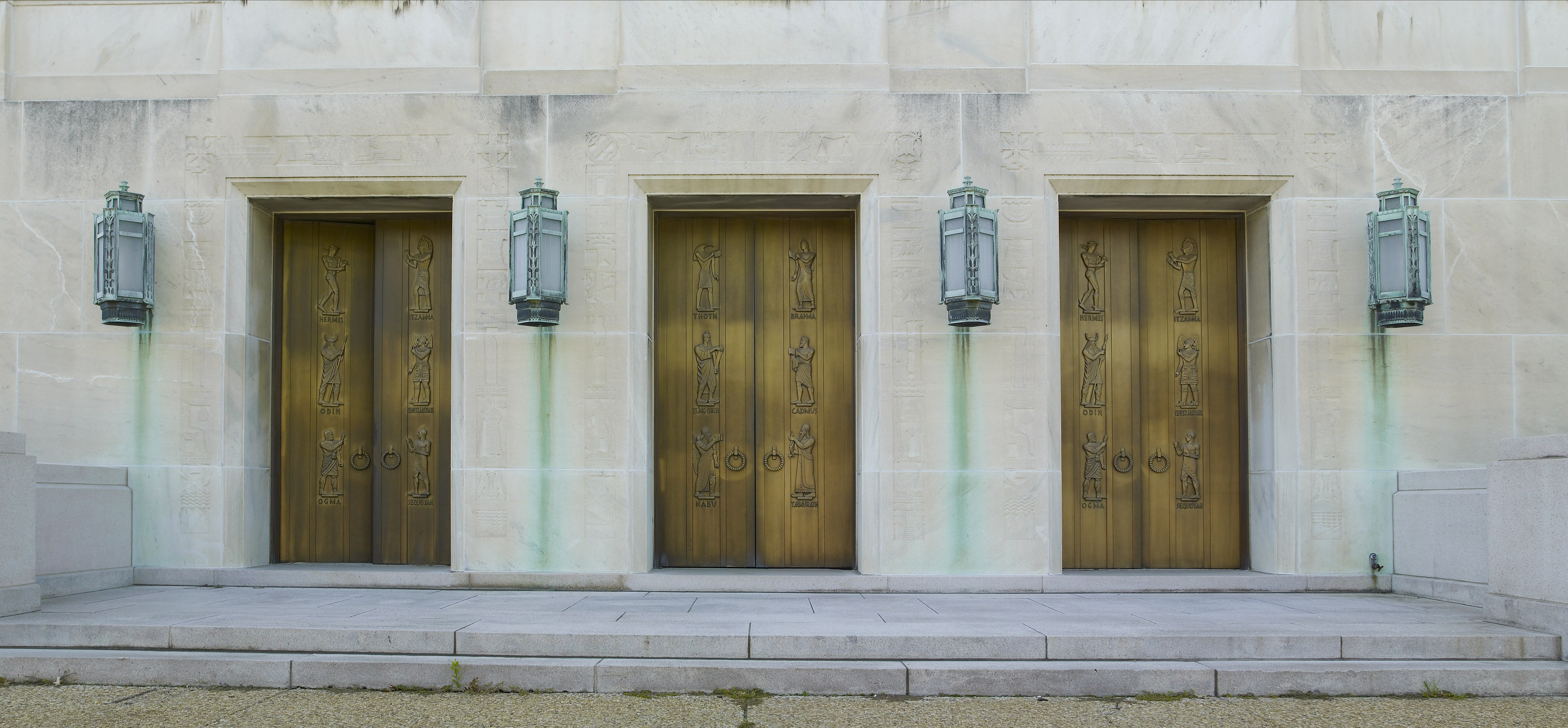 Sculpted bronze figures by Lee Lawrie. Doors, east entrance, Library of Congress John Adams Building, Washington, D.C.